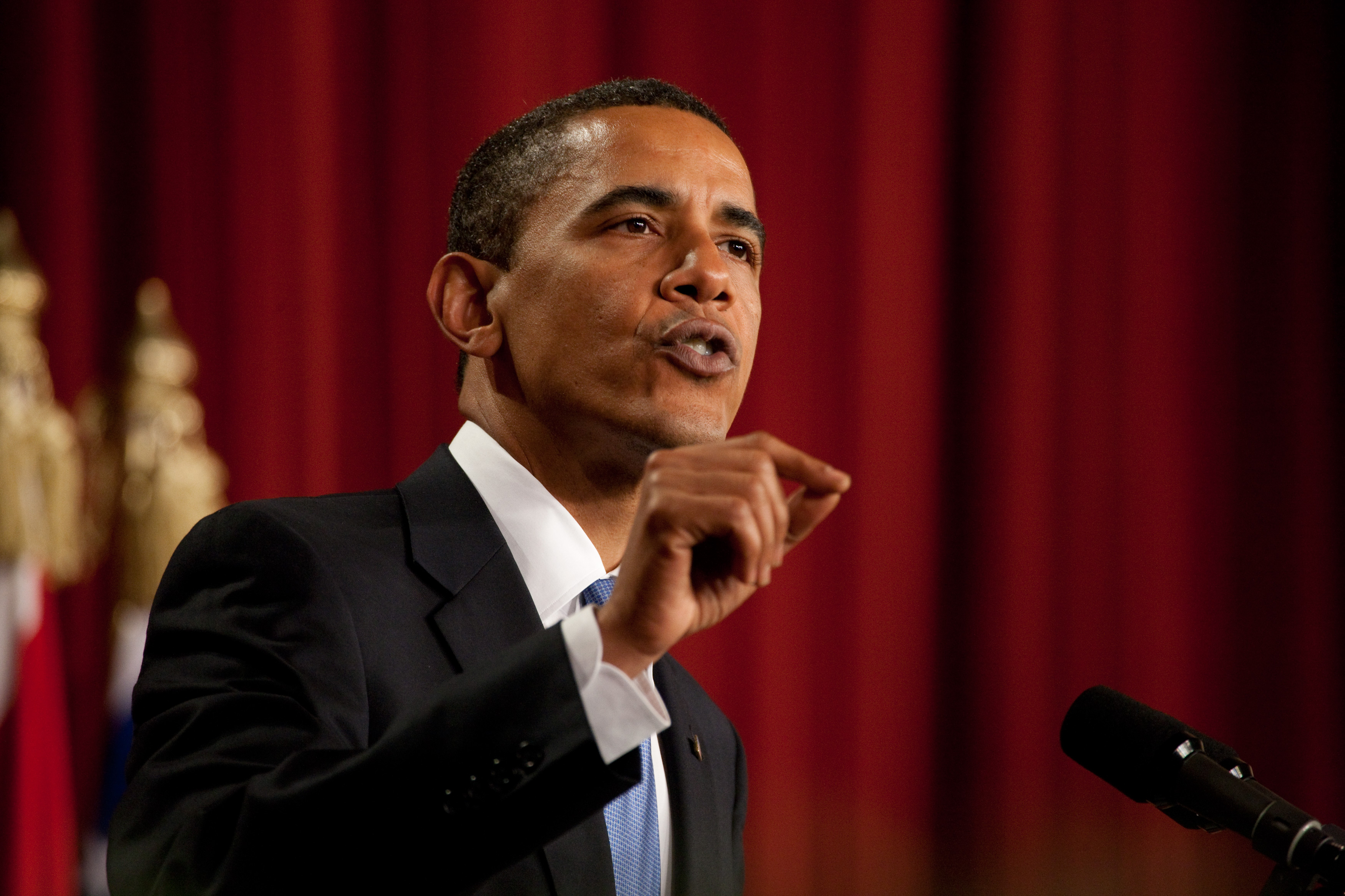 President Barack Obama speaks at Cairo University in Cairo, Egypt, Thursday, 4 June 2009. In his speech, President Obama called for a 'new beginning between the United States and Muslims', declaring that 'this cycle of suspicion and discord must end'.